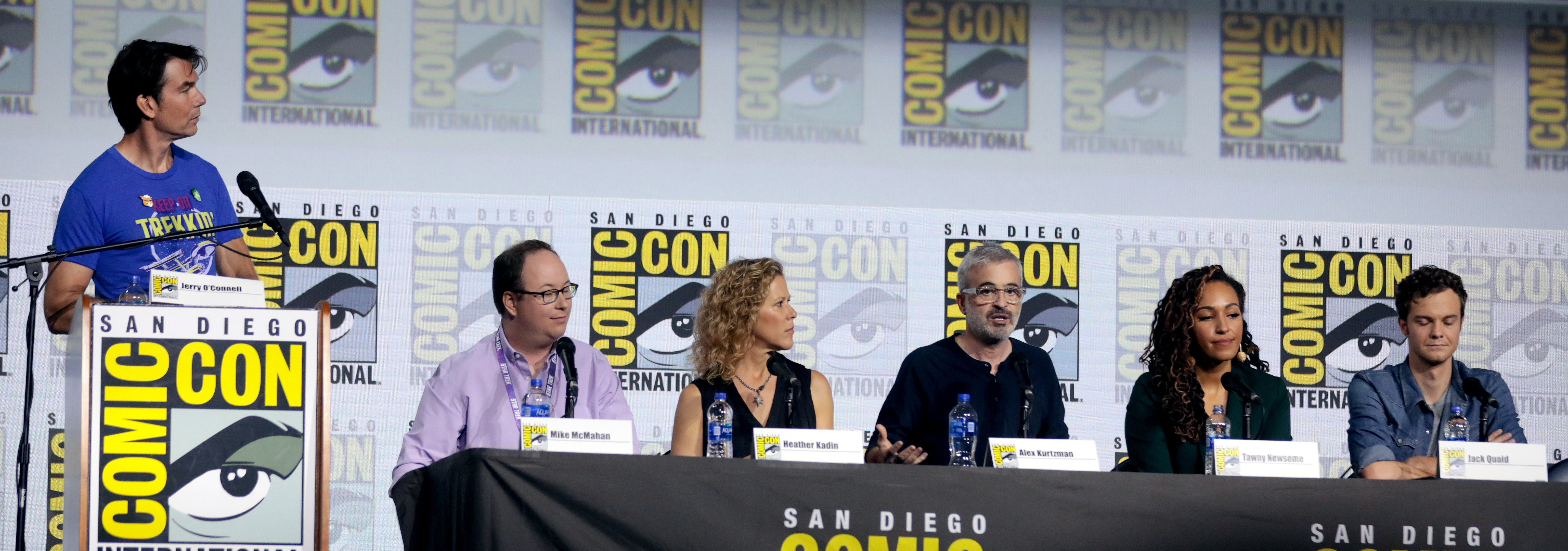 Jerry O'Connell, Mike McMahan, Heather Kadin, Alex Kurtzman, Tawny Newsome and Jack Quaid speaking at the 2019 San Diego Comic Con International, for "Star Trek: Lower Decks", at the San Diego Convention Center in San Diego, California.